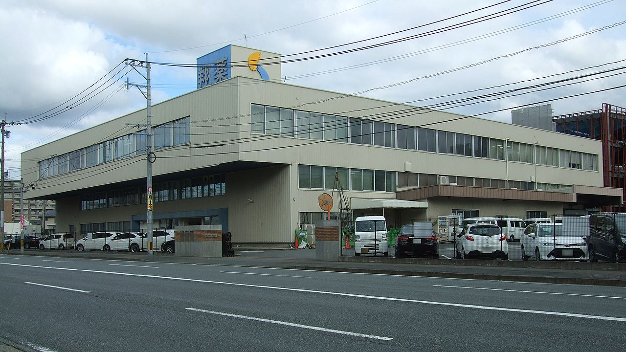 Shoyaku headquarters, Hakata Ward, Fukuoka City, Fukuoka, Japan.